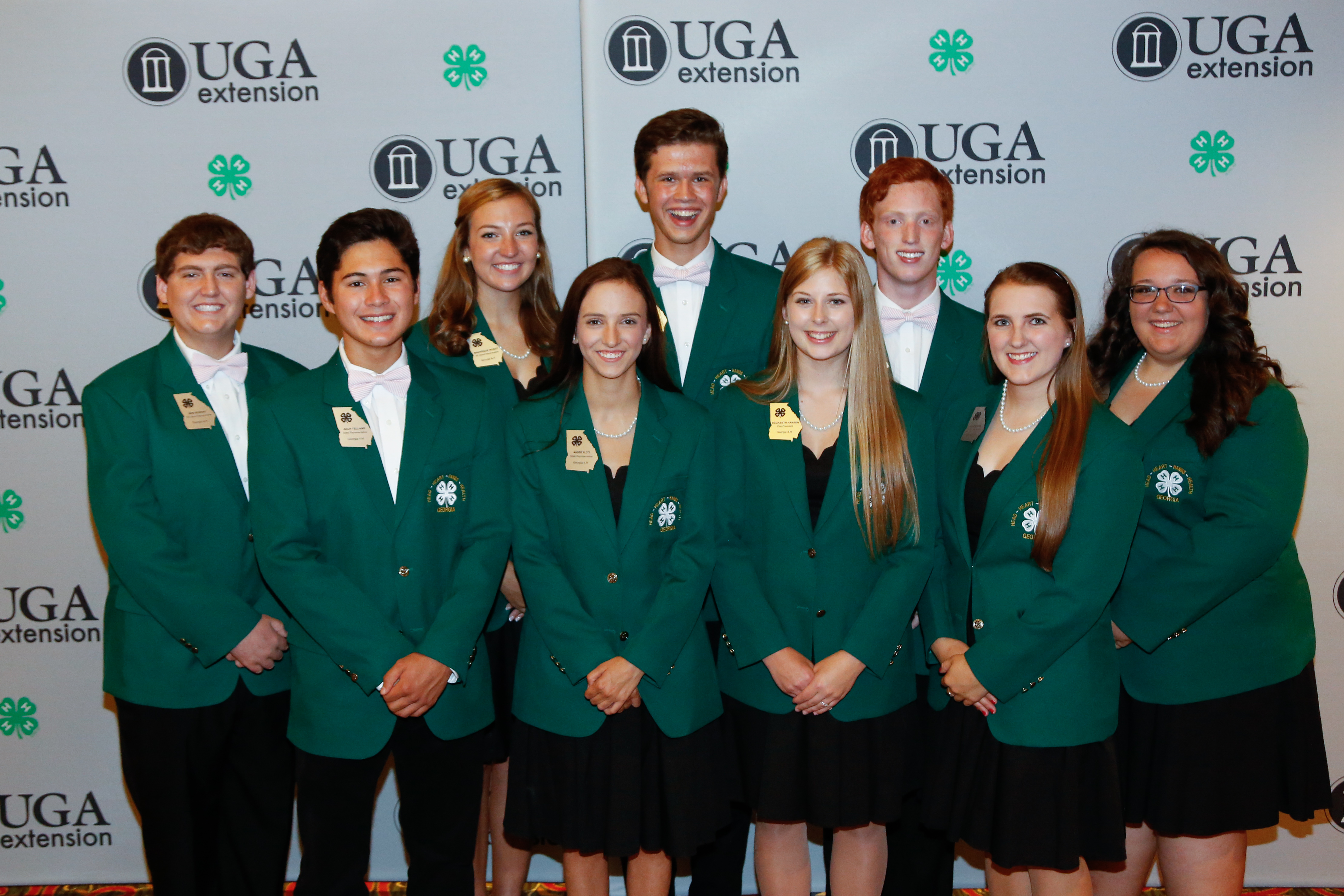 The 2015-2016 State Board of Directors at the 2015 State Congress in Atlanta, GA.